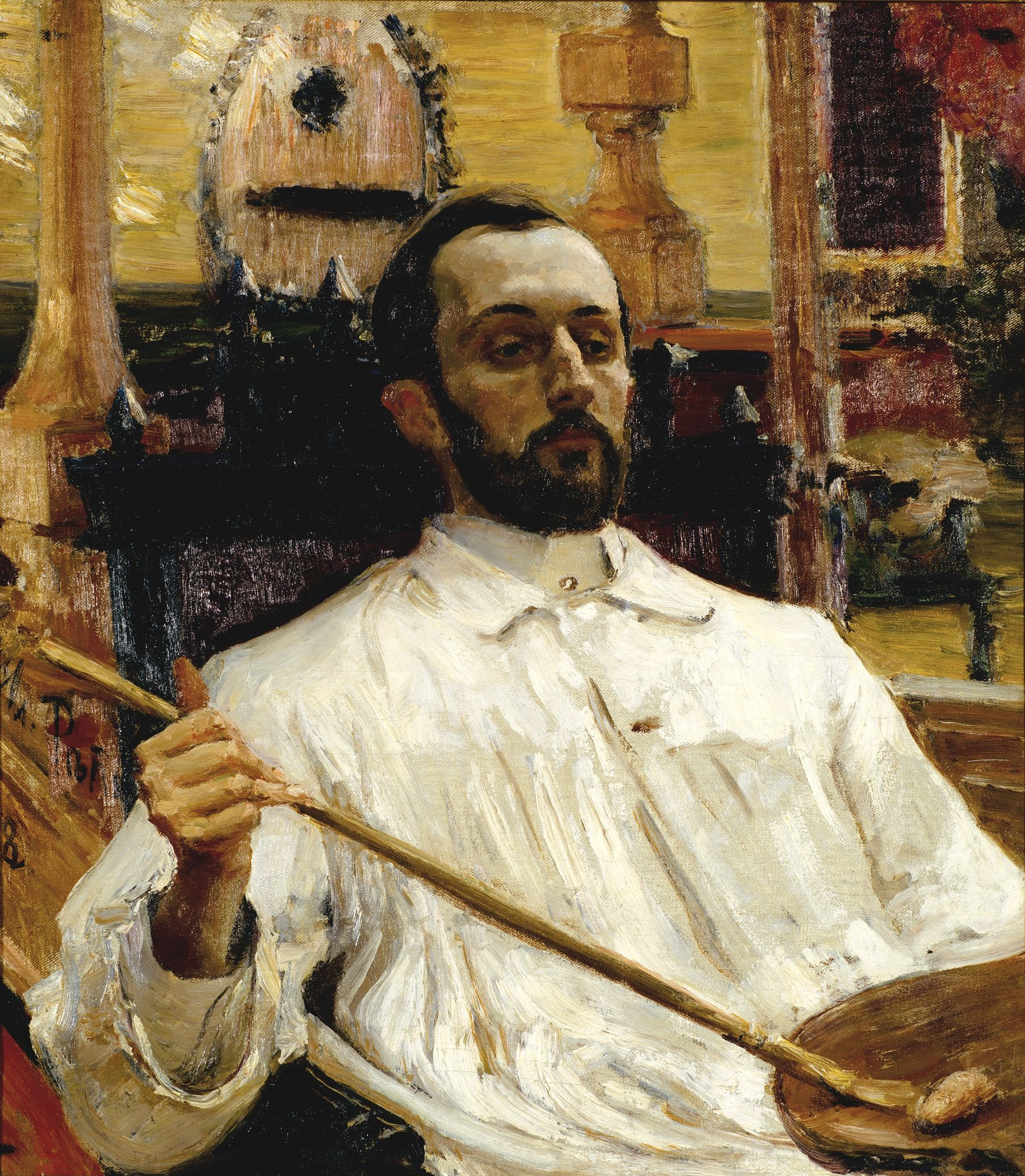 Portrait of painter Dmitri Nikolayevich Kardovsky